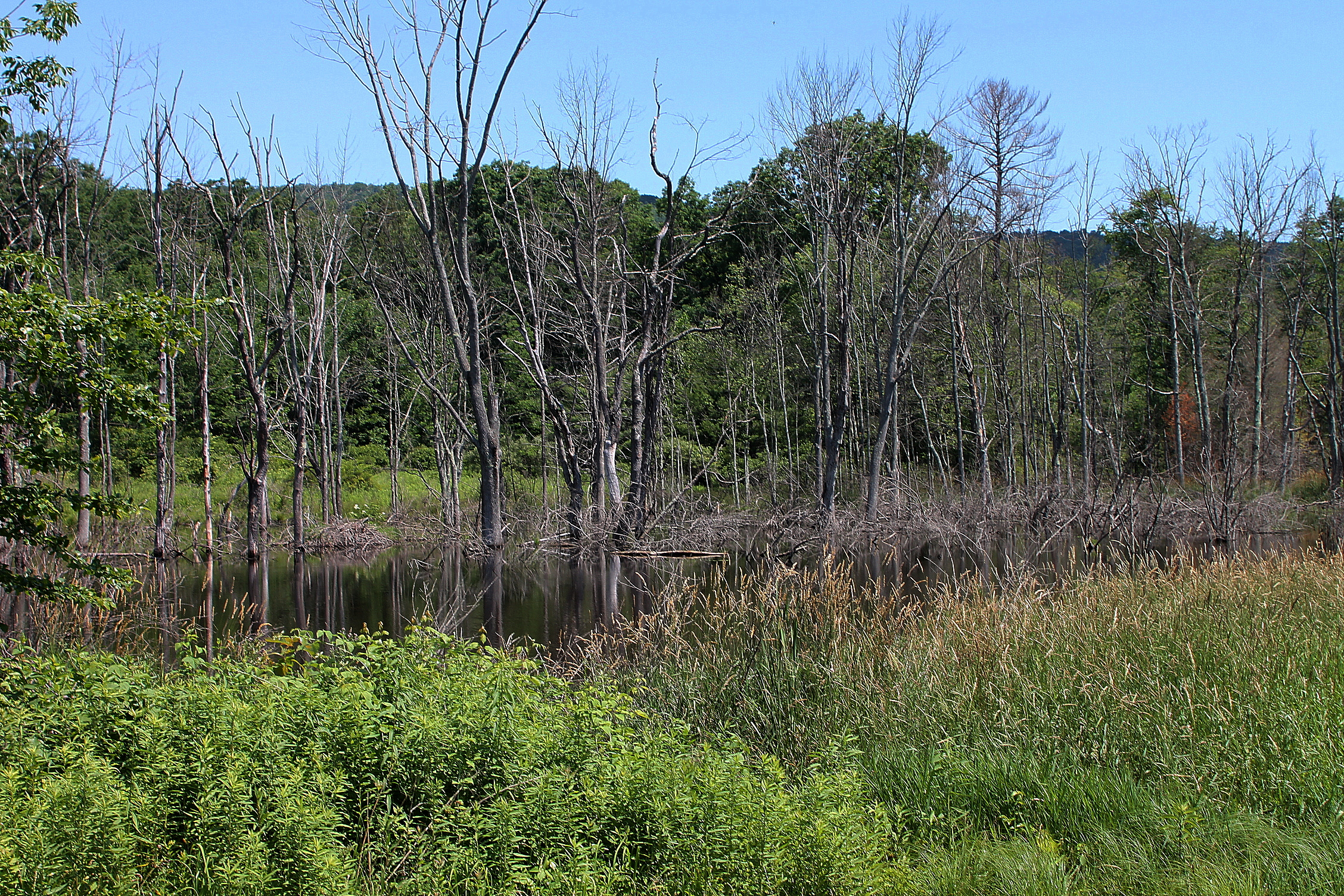 Swampland 0.4 miles from the headwaters of Stony Brook. This is south of Pennsylvania Route 93.